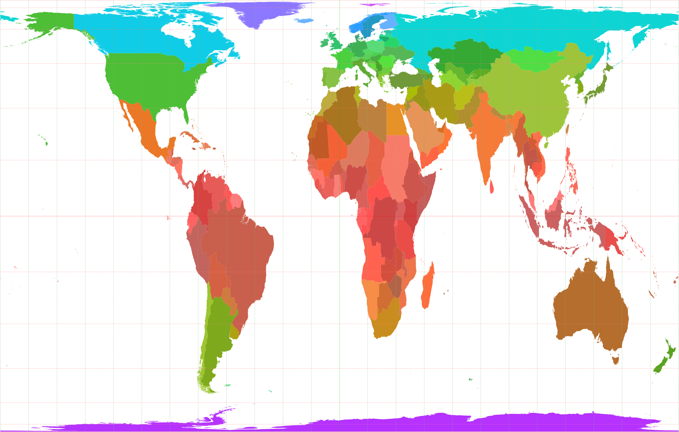 Political map of the World in cylindrical projection with colours that vary with latitude, scaled vertically with respect to the equivalent cylindrical projection of Lambert (projection of Gall-Peters).